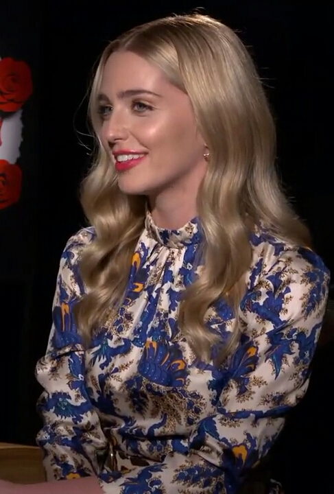 Interview